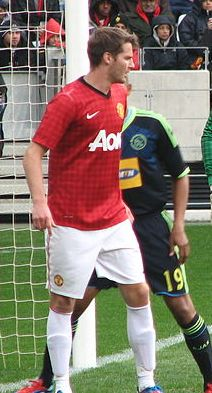 Manchester United's Nick Powell, Ben Amos and Marnick Vermijl prepare to defend a corner in a pre-season friendly match against Ajax Cape Town on 21 July 2012